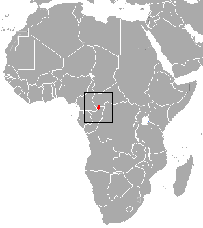 Kongana Shrew (Sylvisorex konganensis) range